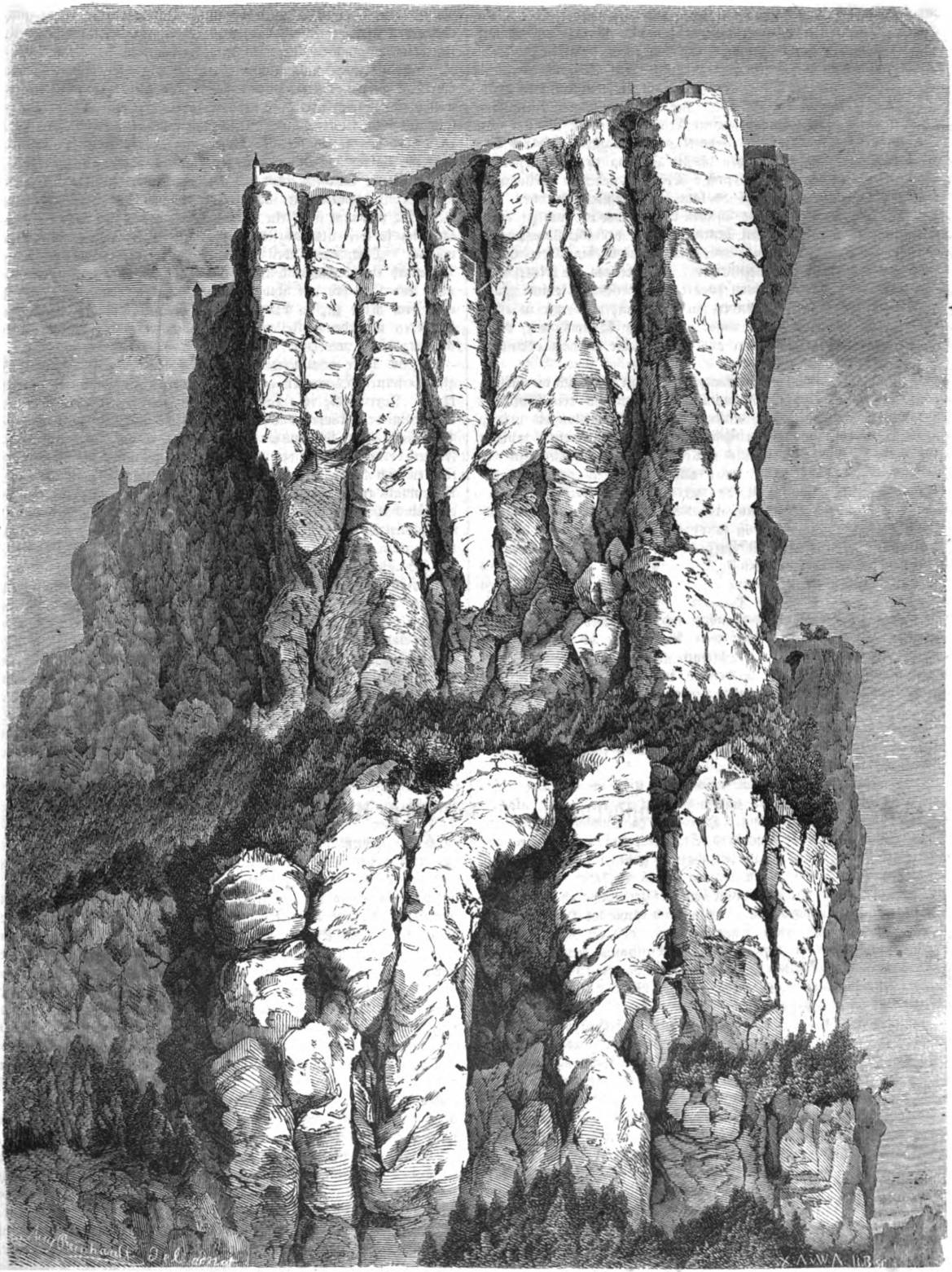 caption: "Die Festung Königstein von der Ostseite. (Nach einer Originalzeichnung von Aug. Reinhardt.)"